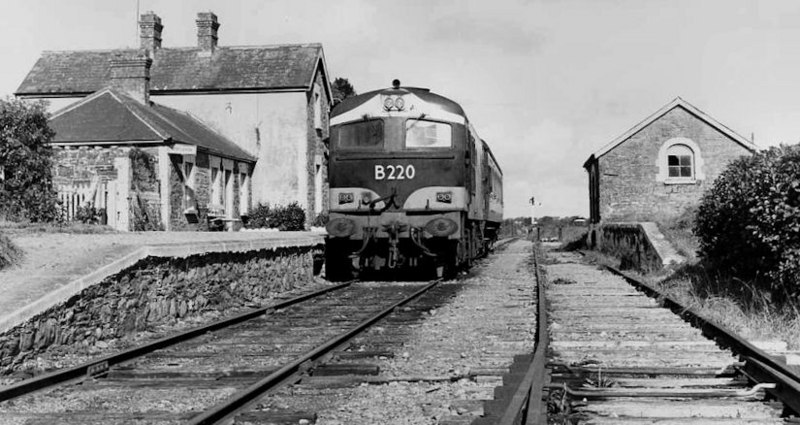 Dunsandle station (2). B220 with the 11.15 Attymon Jct � Loughrea calling at Dunsandle station.